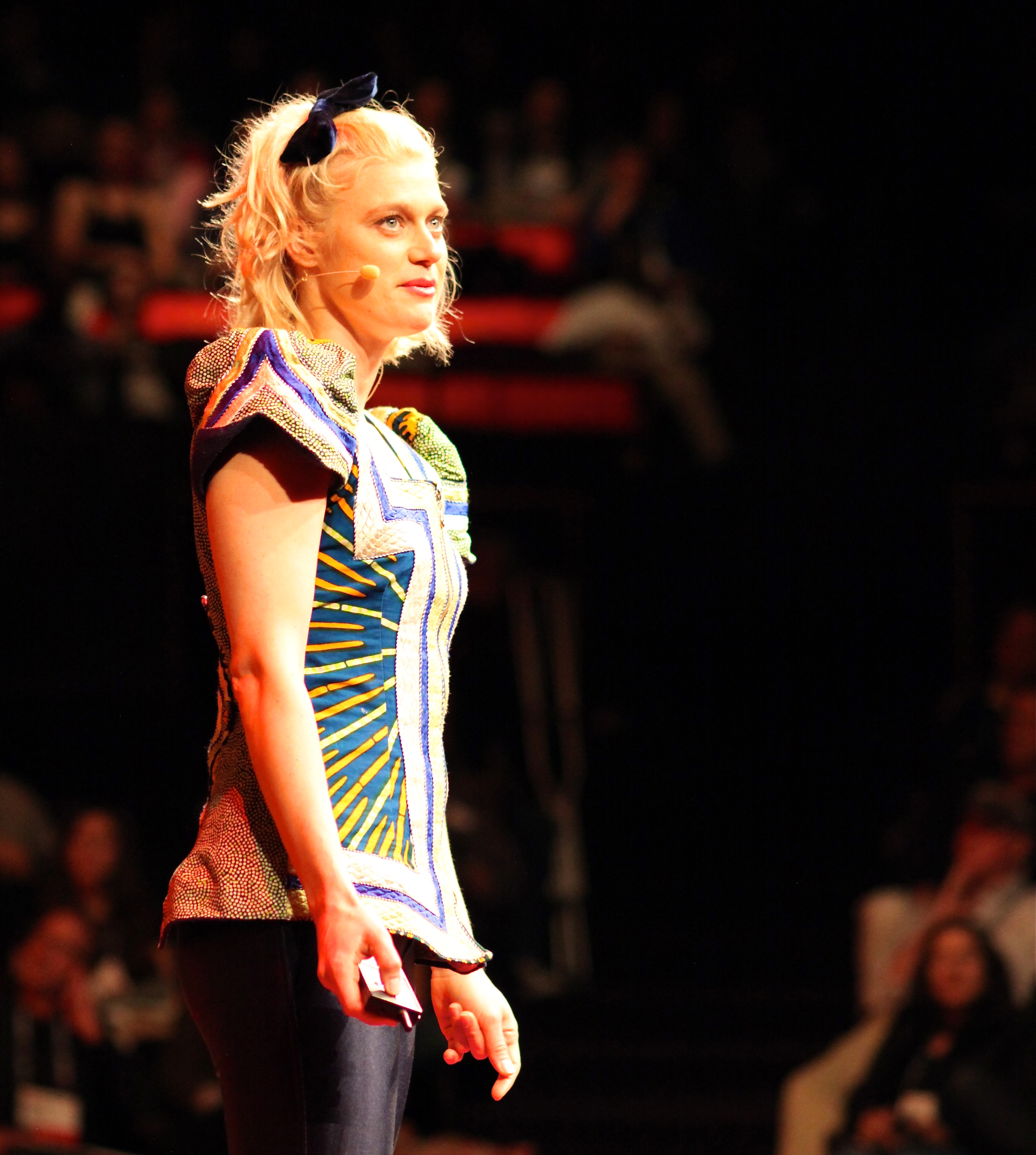 TED Fellow Lucy McRae imagines ways to merge biology and technology in our own bodies — from clothes that image the body's insides for a music video with pop-star Robyn, to a pill that, when swallowed, lets you sweat perfume. Here is her short TED Talk and more photos below.